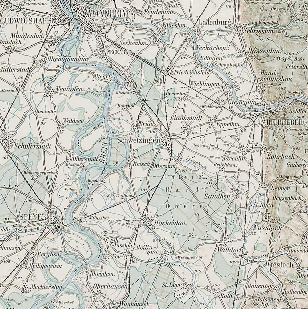 part of 3rd Military Mapping Survey of Austria-Hungary - Karlsruhe